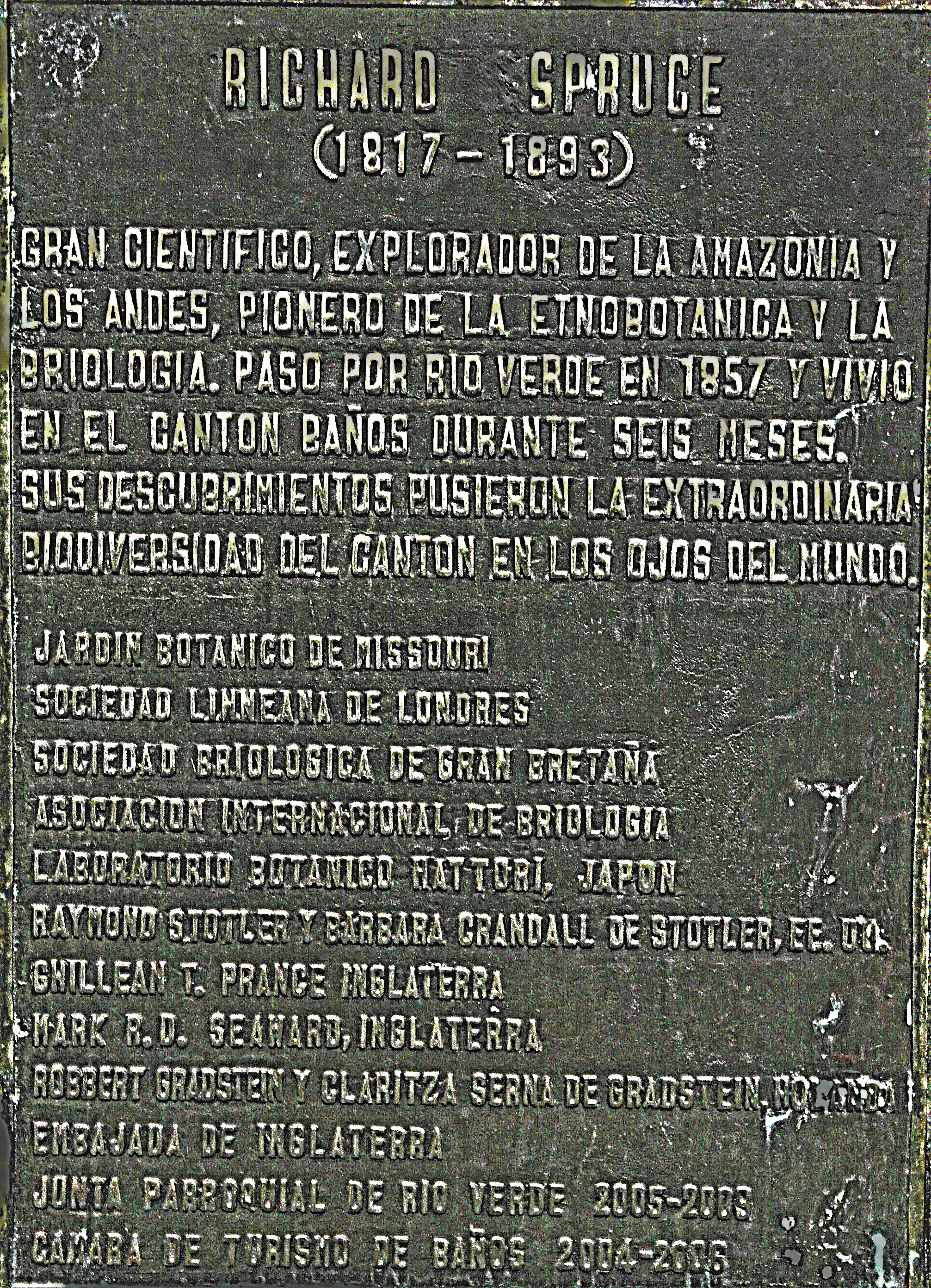 Richard Spruce memorial in Rio Verde, Ecuador